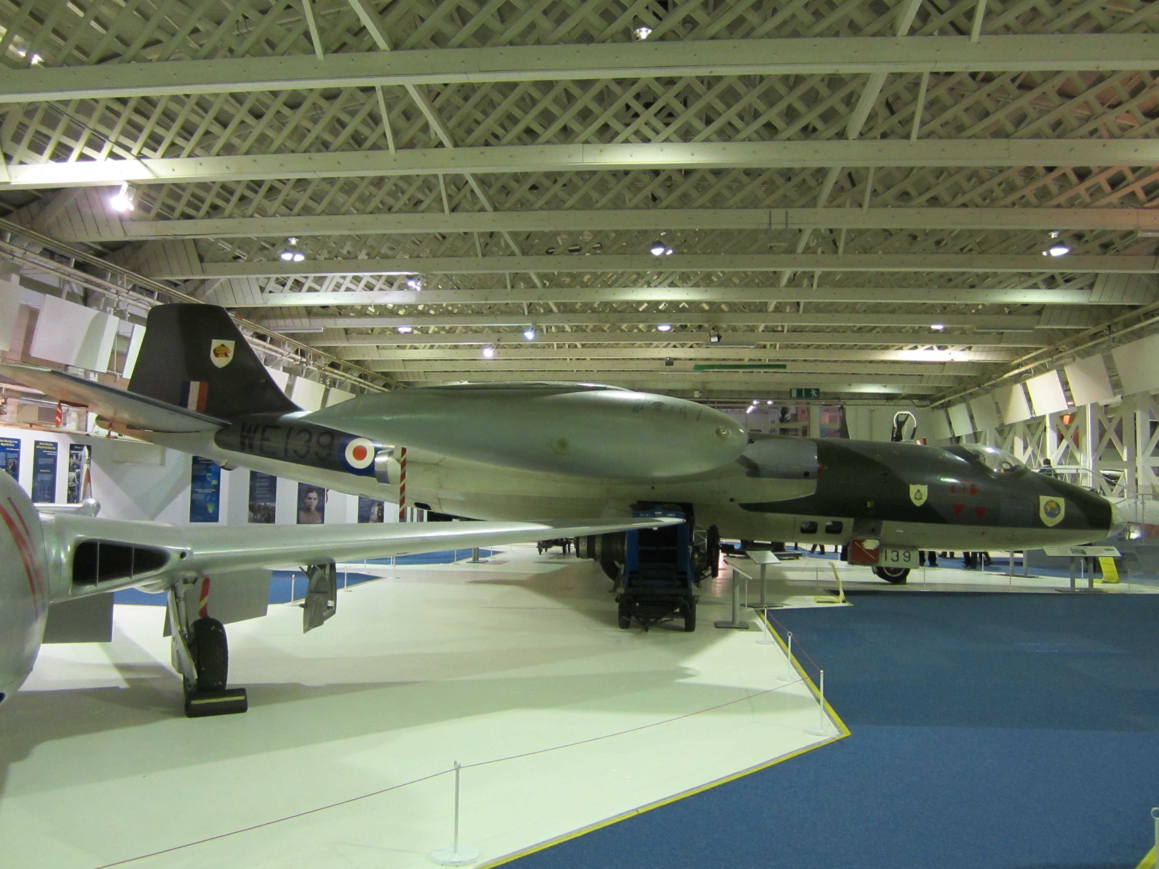 An English Electric Canberra on display at RAF Museum London. This aircraft was piloted by Flight Lieutenant Roland (Monty) Burton when he won the 1953 London to Christchurch air race.